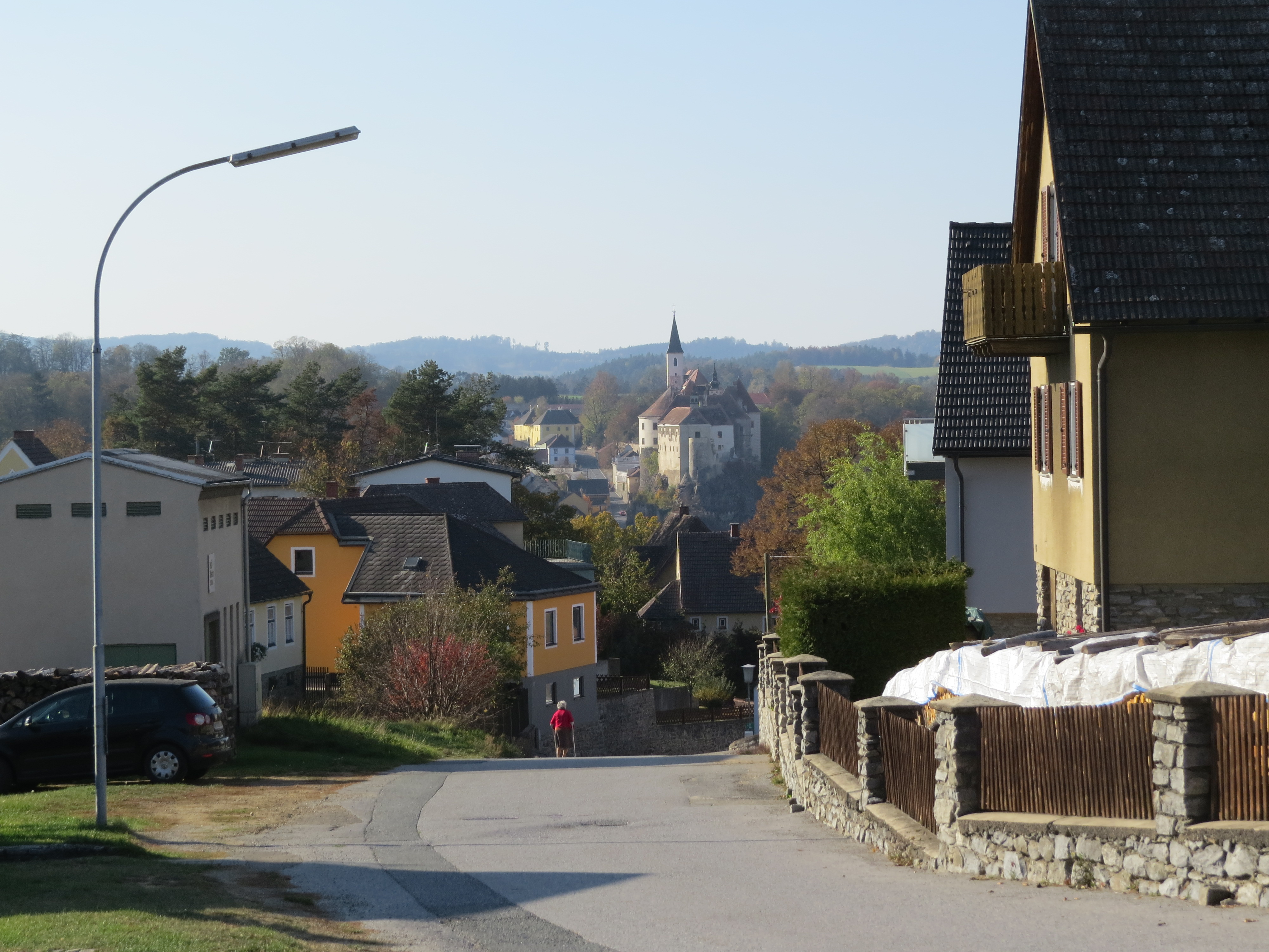 View to Castle Raabs an der Thaya, Austria